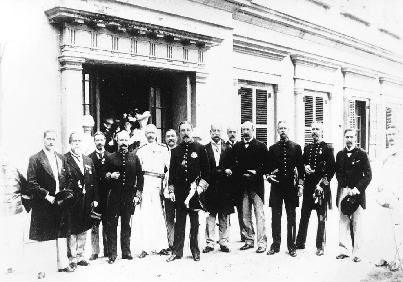 Legco members in 1897